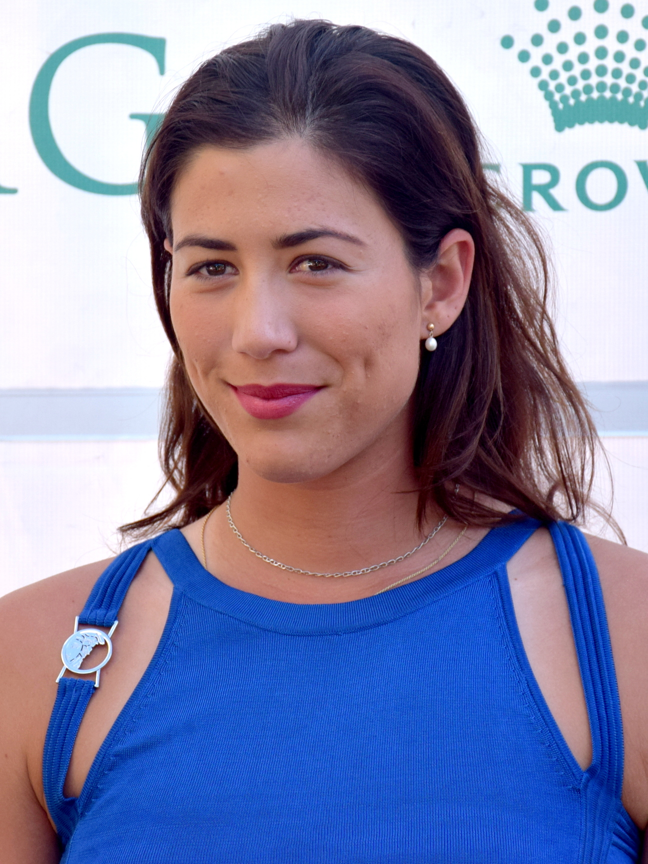 Garbine Muguruza (Spain), Australian Open Players' Party